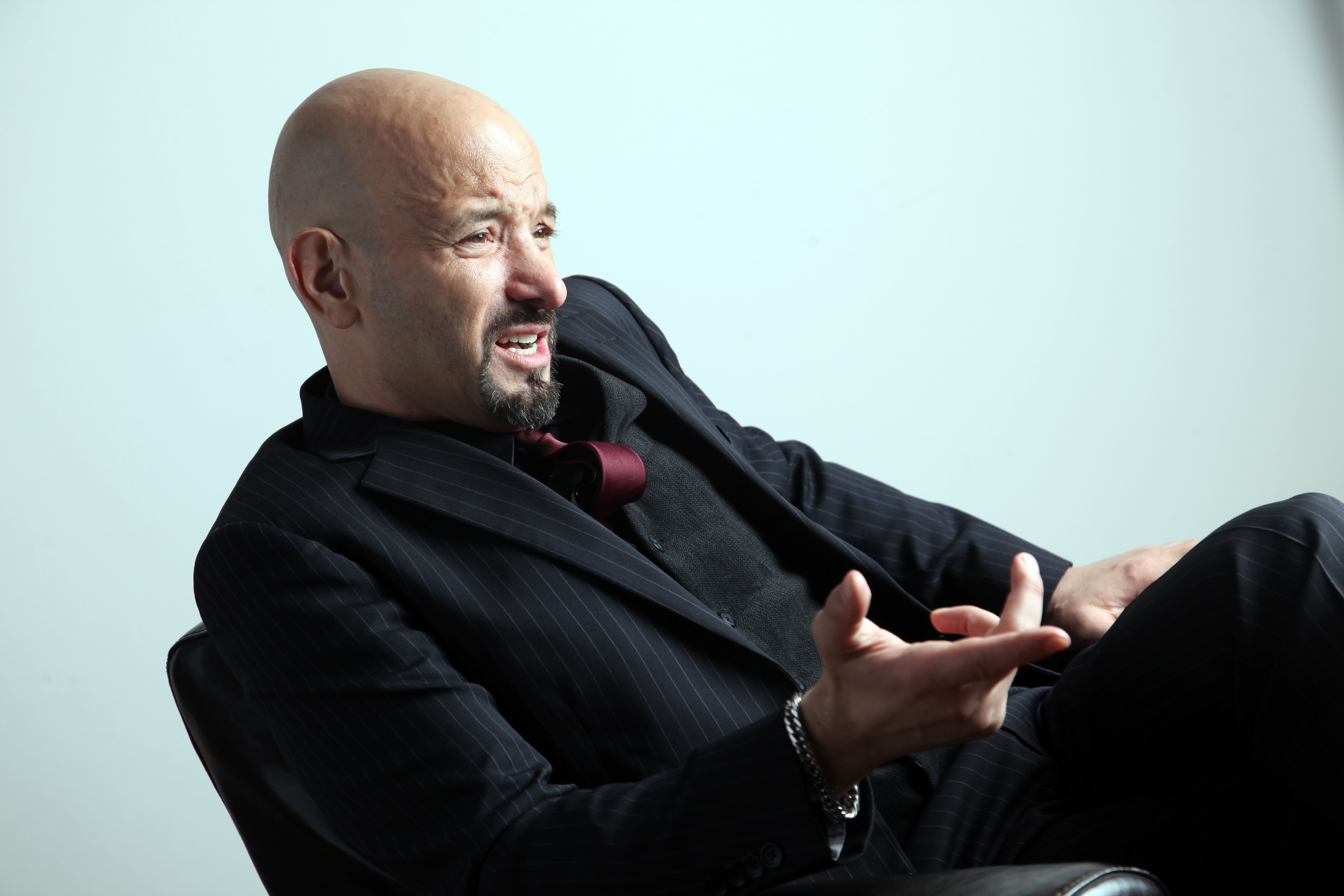 Publicity photo of civil rights and criminal defense attorney Jason Flores-Williams